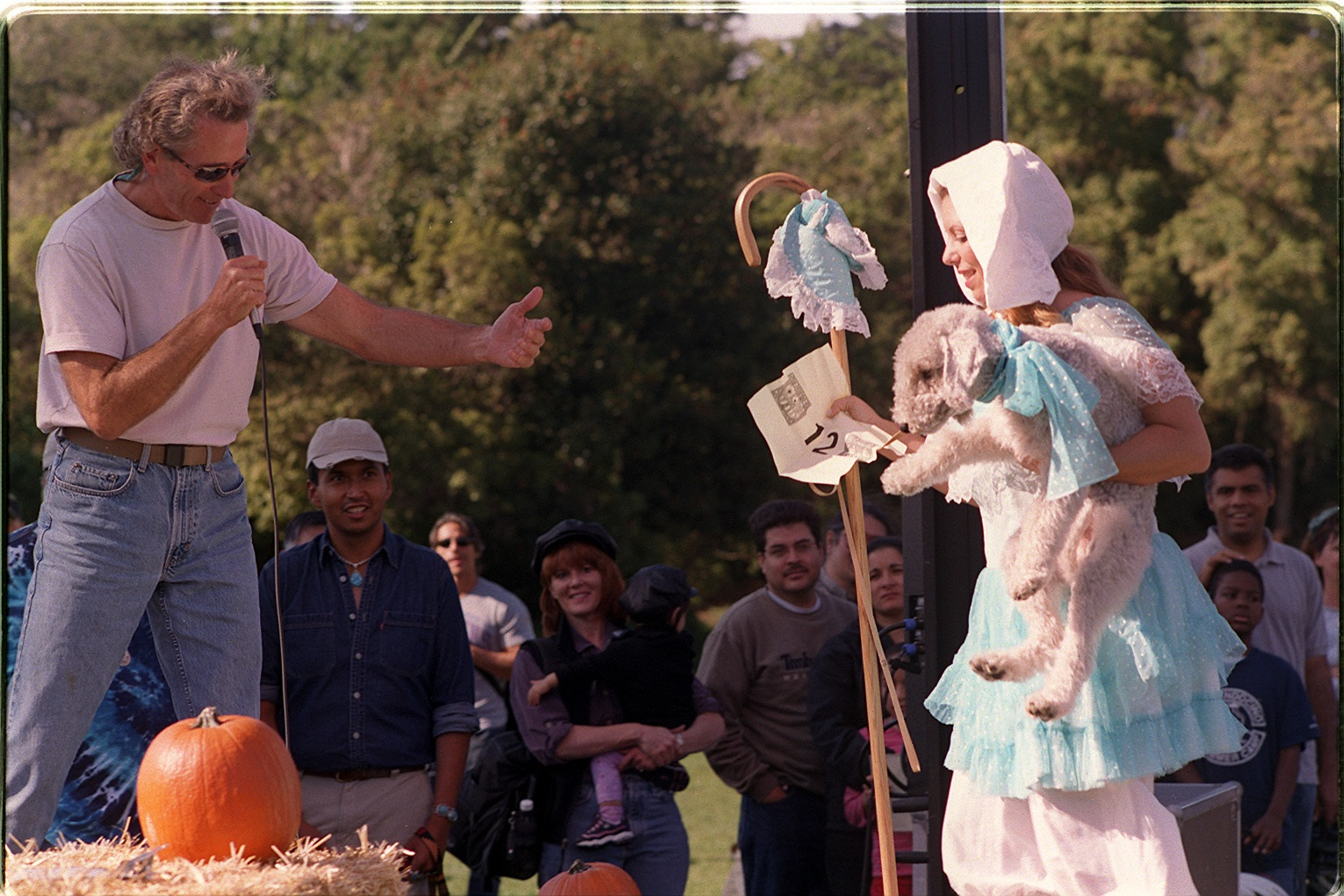 Doug MCCONNELL, host of 2002 Pet Pride Day in Golden Gate Park.9th Annual Pet Pride Day 2002 October 27, 2002 Sharon Meadow, Golden Gate Park Festive event featured a Halloween costume contest, demonstrations by service animals, recognition of animal talent . Pet Pride Parade Search and Rescue Dog Demo Halloween Costume Contest Reunion Rescue Frisbee Pit Bulls Animal Planet Pet Trick Auditions Benefit for Friends of San Francisco Animal Care and Control Photo by Nancy Wong